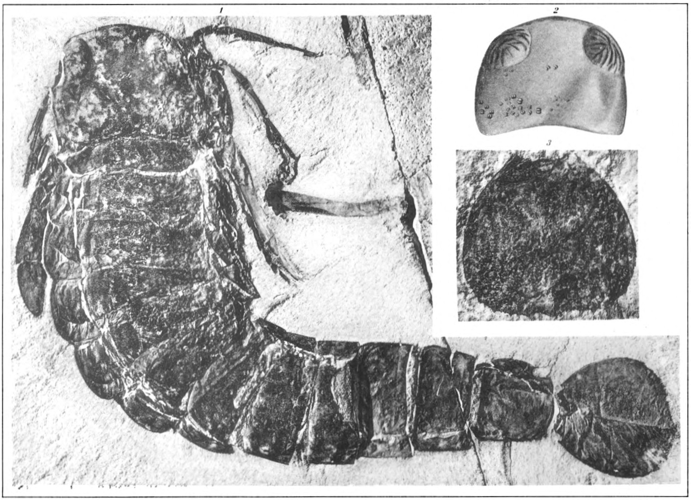 The Eurypterida of New York. Volume 2. New York State Museum Memoir 14, plate 72